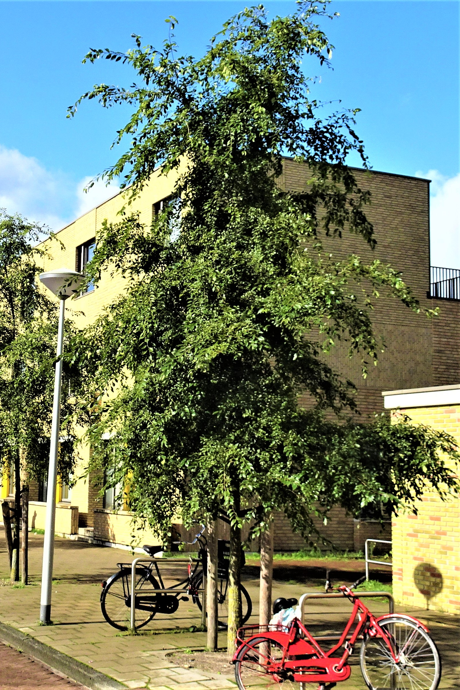 Photo of Ulmus 'Rebella' taken in Amsterdam